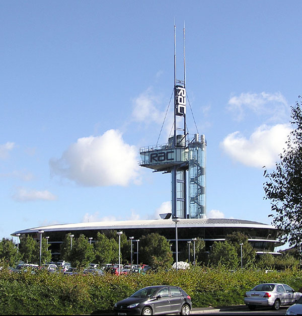 The RAC Tower, a landmark at the Bradley Stoke (Bristol, England) offices of the RAC.